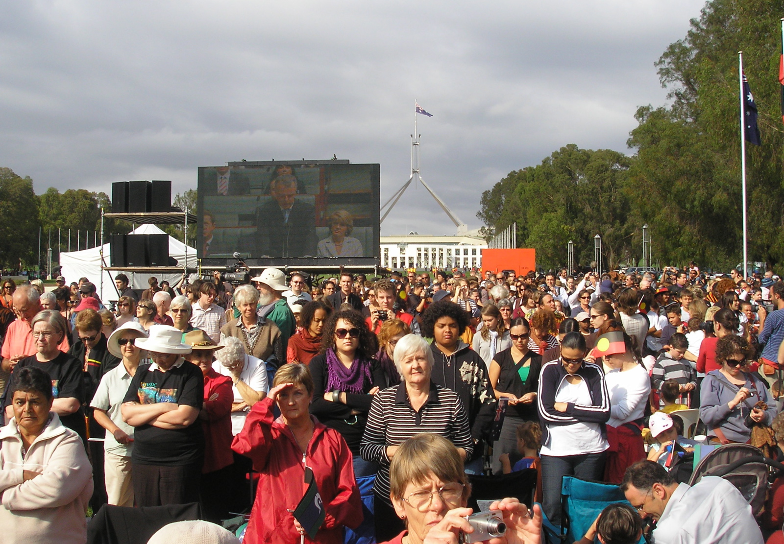 Crowds at Parliament House, and across Australia, controversially turn their backs part way through Brendan Nelson's reply to the Parliamentary apology for the stolen generations.[1]